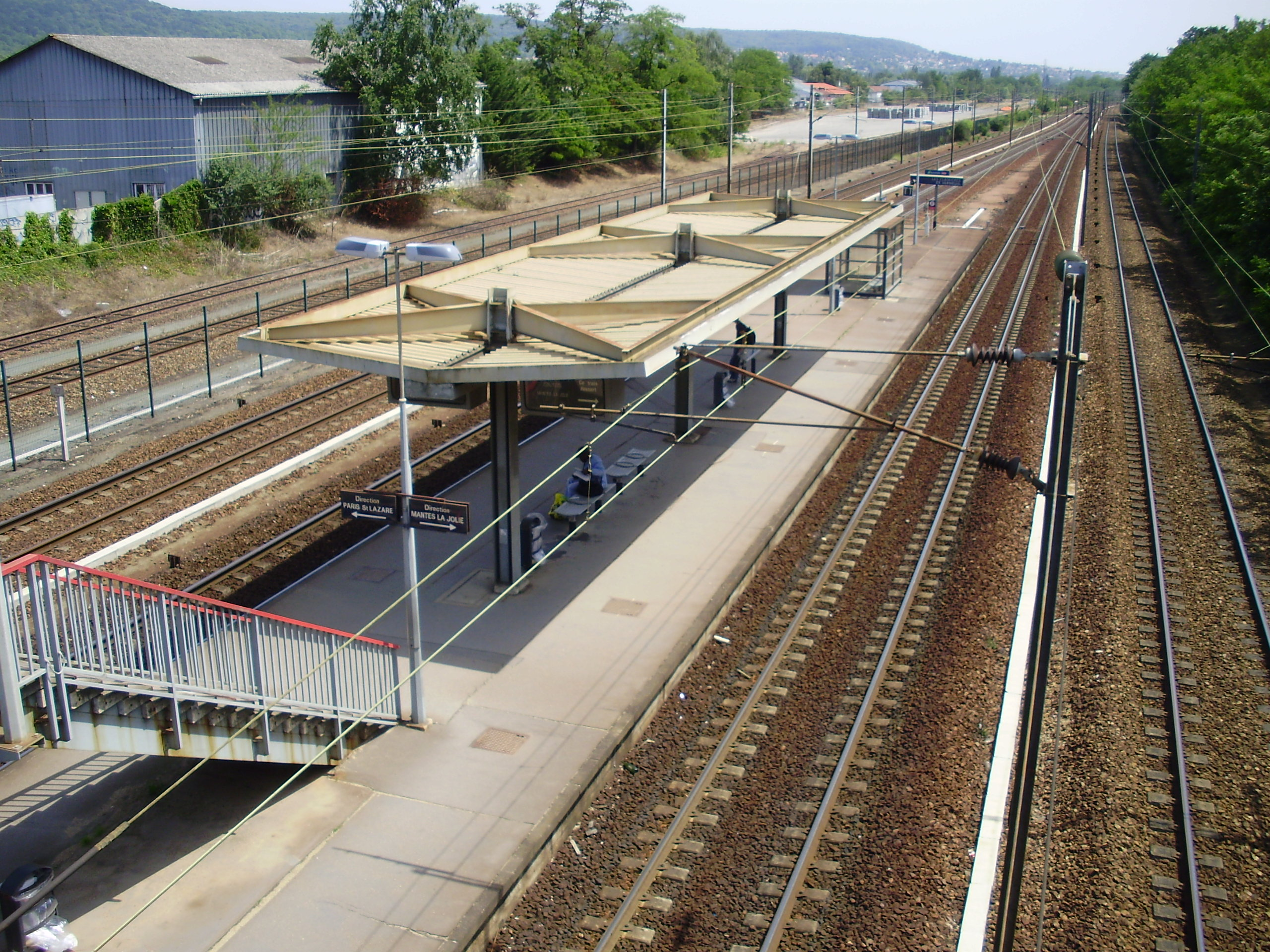 Les Clairières de Verneuil station, in Verneuil-sur-Seine, Yvelines, France (view of the central platform towards Paris)